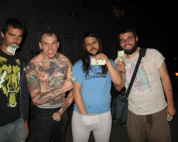 The boys of Lewd Acts, after playing a charity show for Neurasthenia patients.